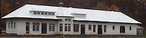 Boyce, Virginia, railway station